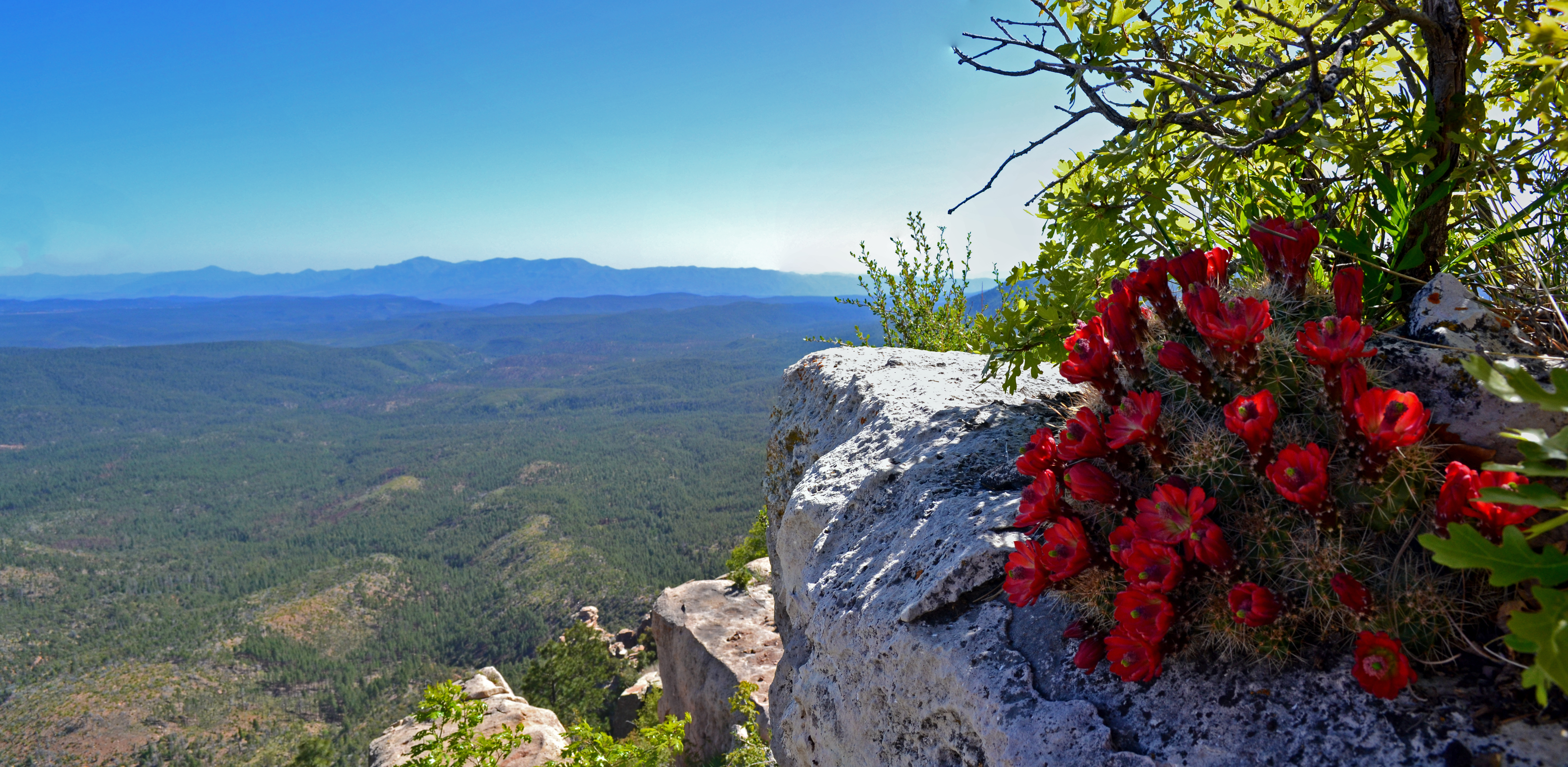 Claret cup bloom on Mogollon Rim. This photo was taken at a point just southwest of Kehl Springs Campground, looking southwest. Taken 5-27-11 by Brady Smith. Credit: U.S. Forest Service, Coconino National Forest.